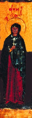 Anysia of Salonika